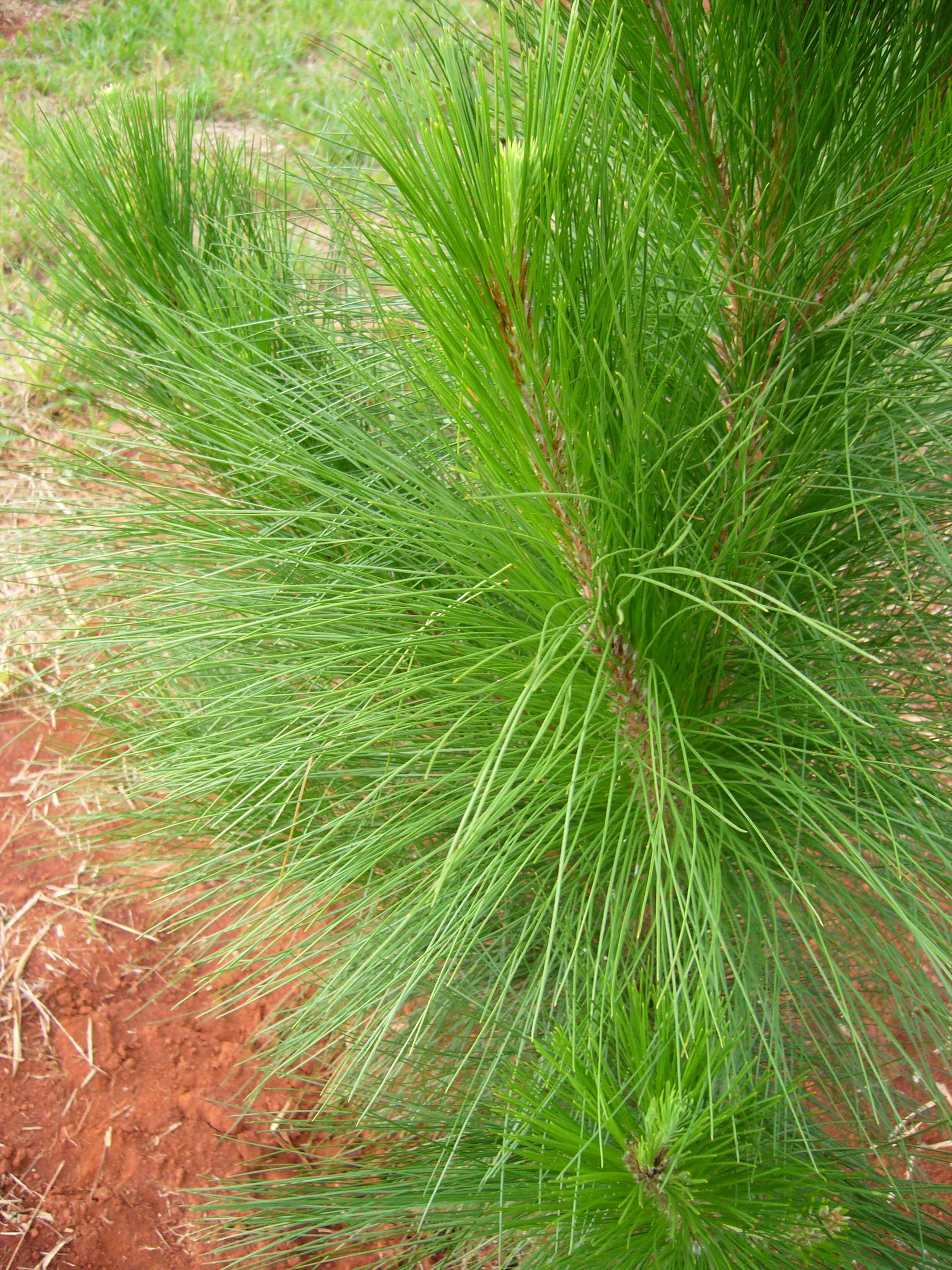 Needles of Pinus oocarpa